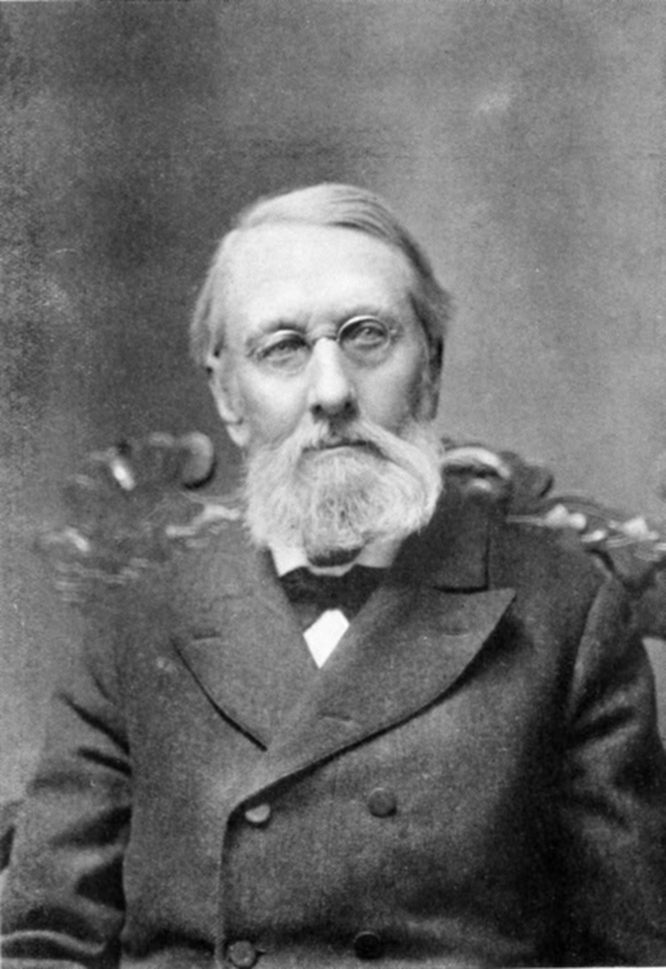 Oregon poet, journalist, and historian